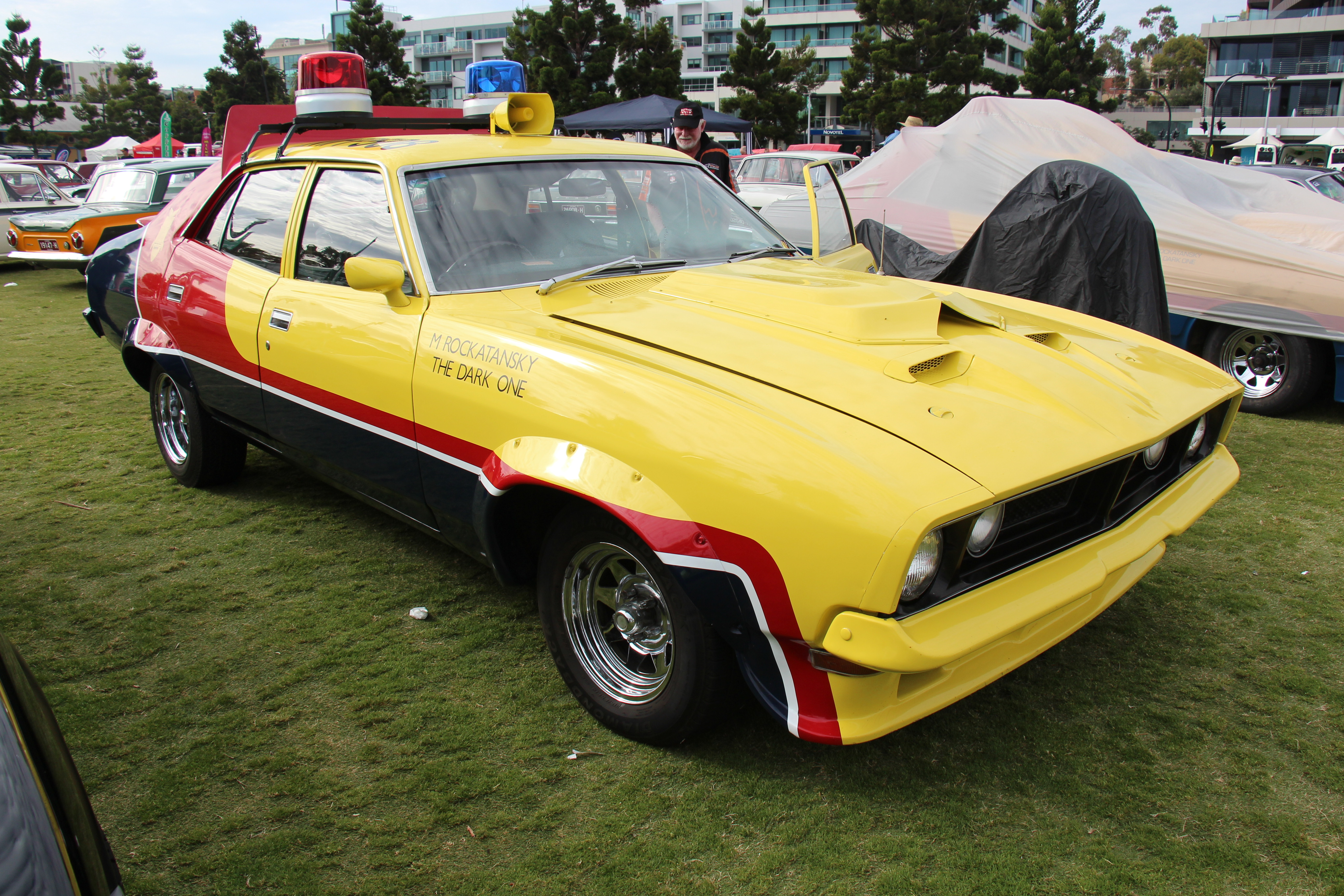 Mad Max XB Sedan Pursuit Car